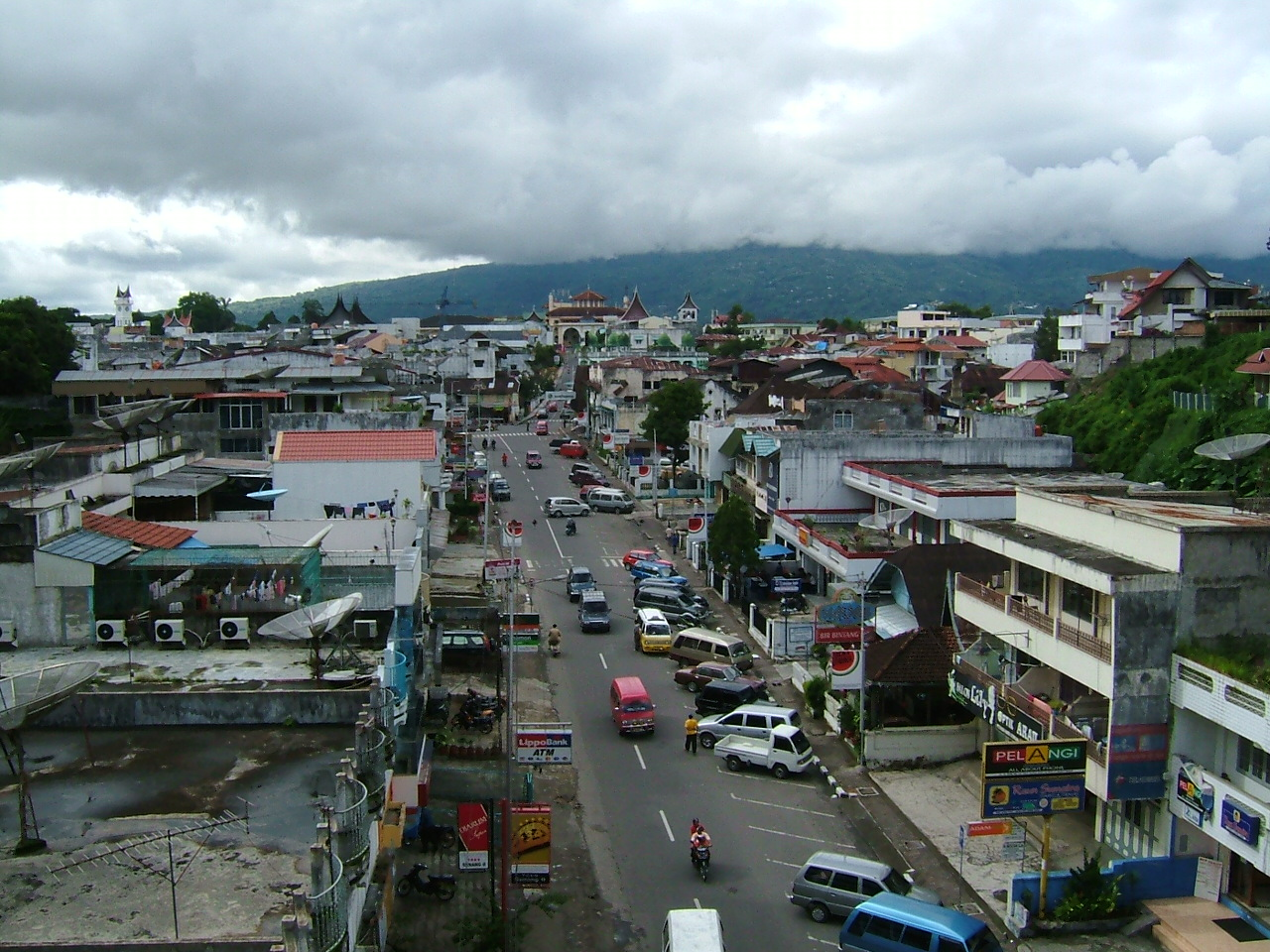 View of Jalan A. Yani, Bukittinggi's main street, in Bukittinggi, West Sumatra, Indonesia